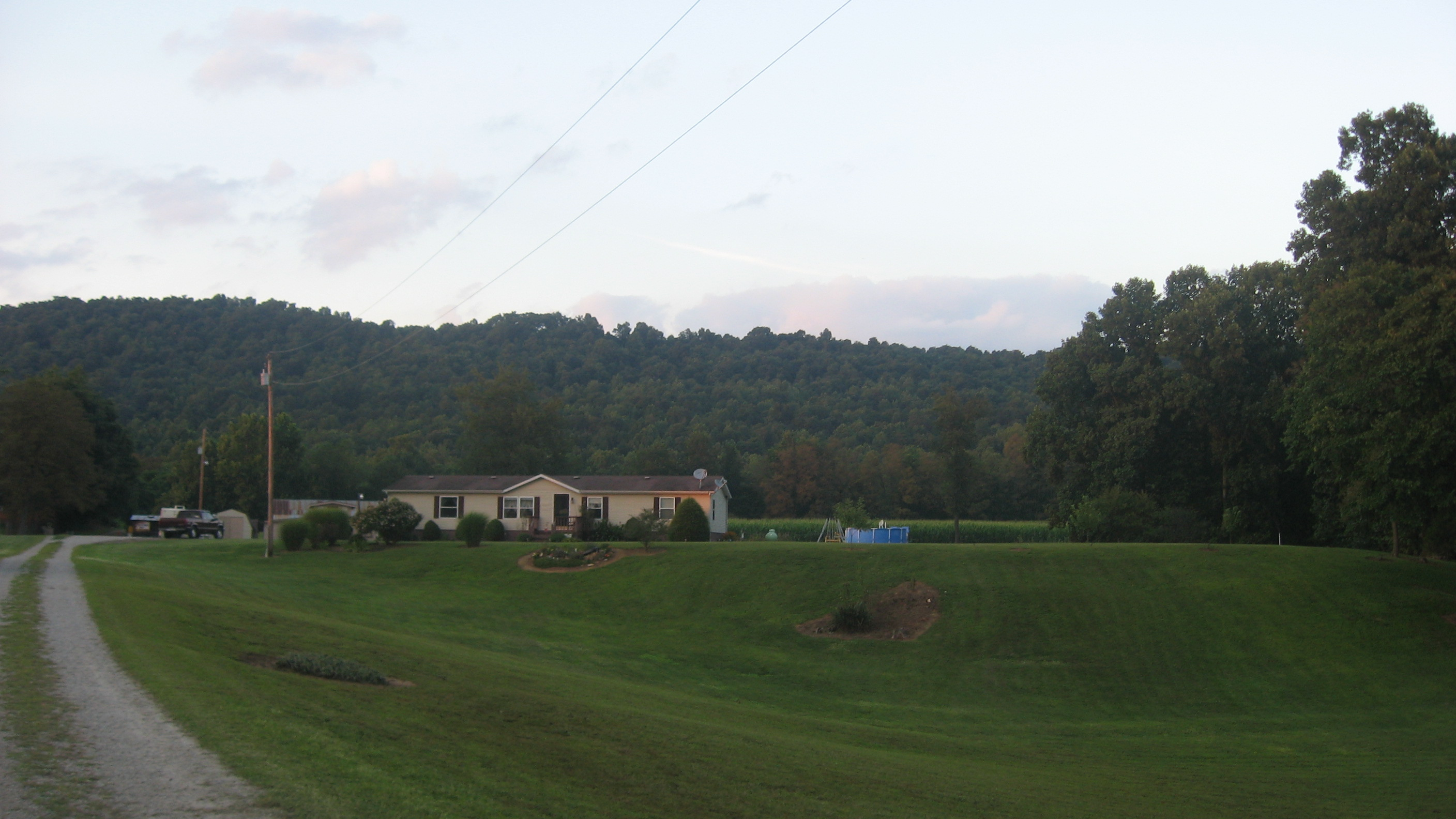 Looking northward from the cemetery at Sandy Springs in Green Township, Adams County, Ohio, United States. The fields in the distance are part of the Adams County Paleo-Indian District, a highly significant archaeological site from the Paleoindian period. It is listed on the National Register of Historic Places.